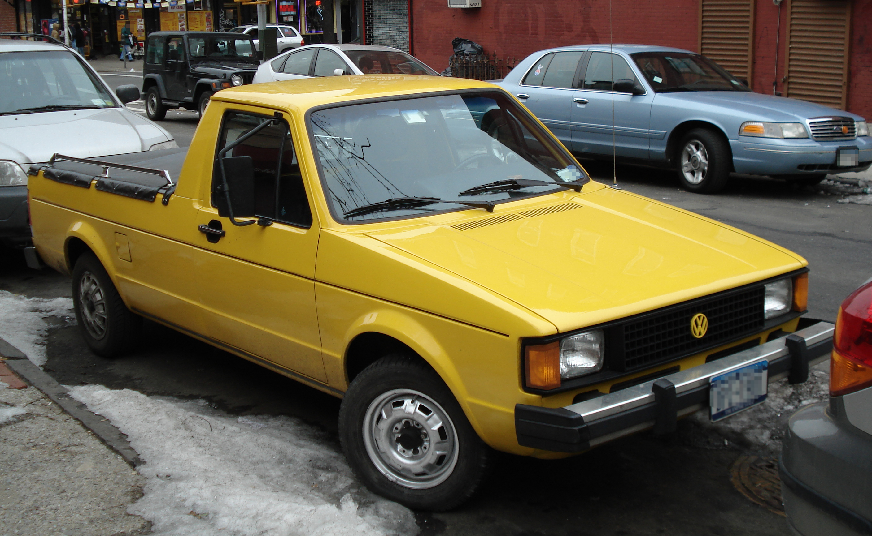 An unidentified Volkswagen motor vehicle of some sort. 'Tis a VW Rabbit Pickup. Copyright 2007 Jeffrey O. Gustafson - released under the GFDL.